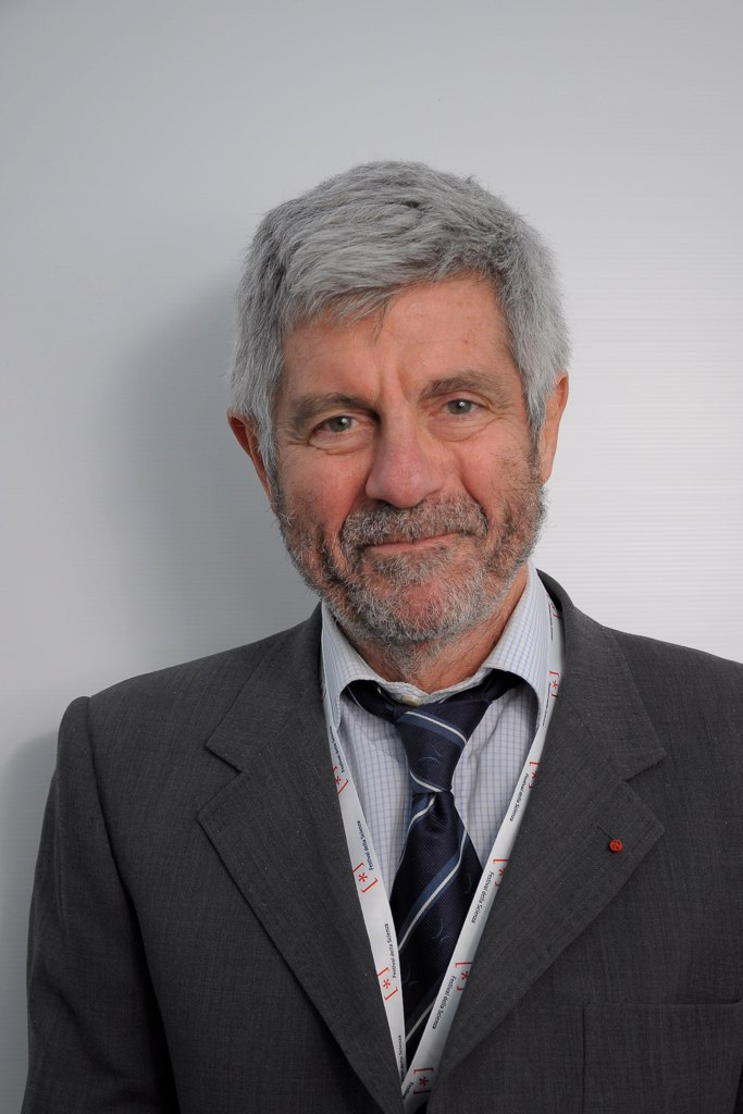 Italian physicist Giovanni Bignami, who was President of the Italian Space Agency from 16 March 2007 to 1 August 2008. This picture was taken in Genoa, Italy, at the 2011 Festival della Scienza.